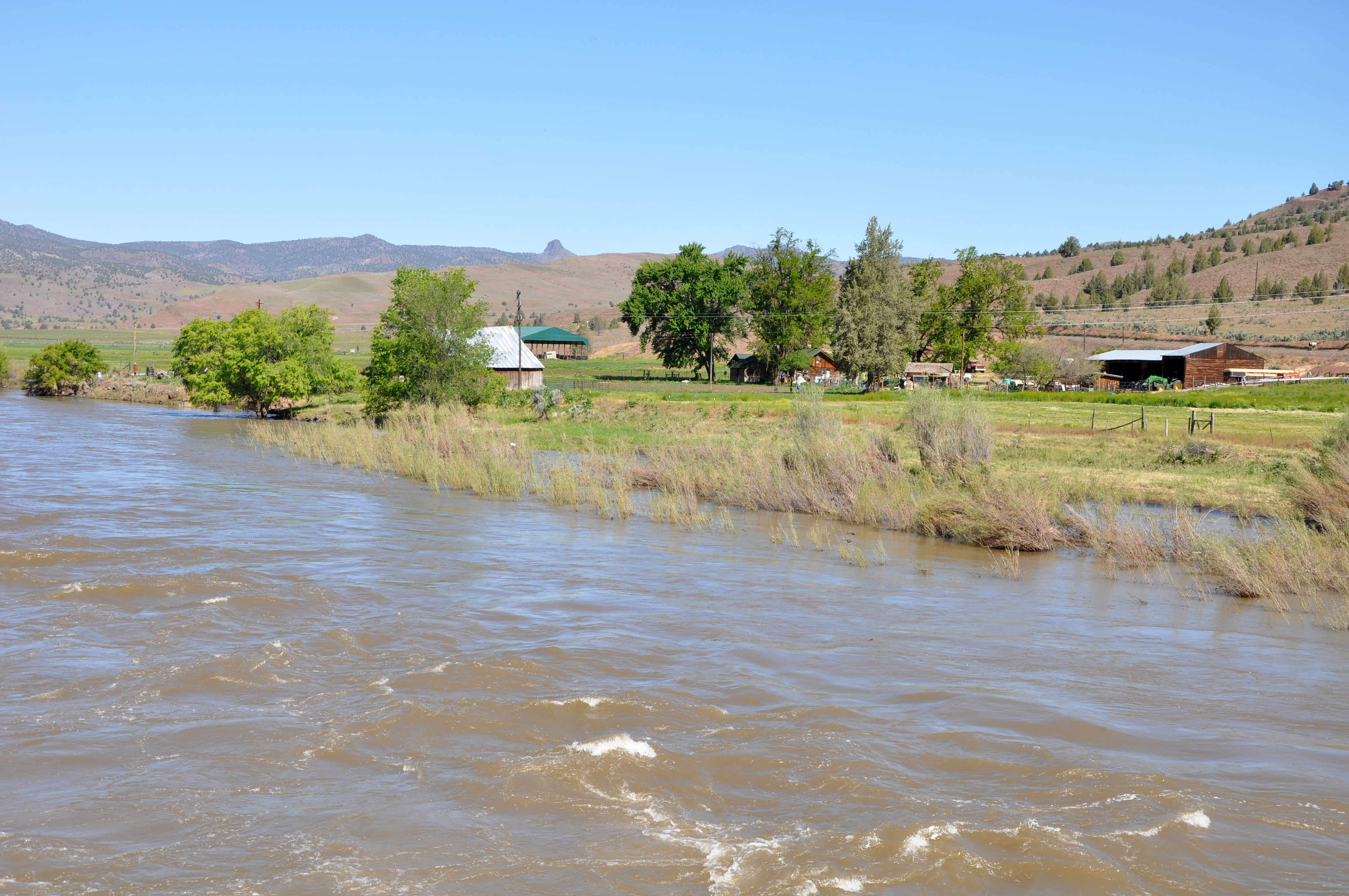 Ranch buildings along the John Day River in Twickenham, an unincorporated community in the U.S. state of Oregon